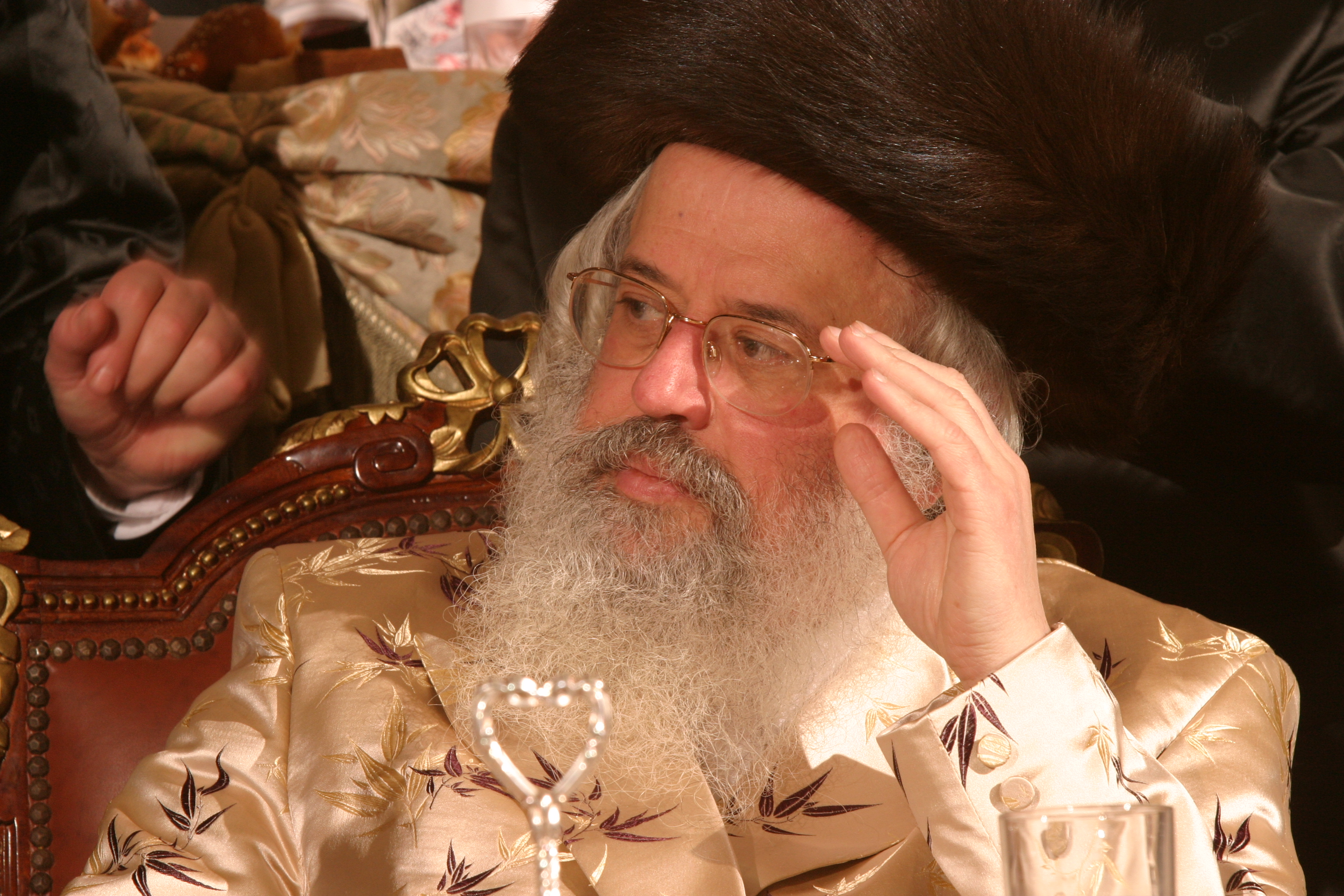 Source: This picture was taken by myself in 2005 and I have the rights. I give permission to use this photo for public use.